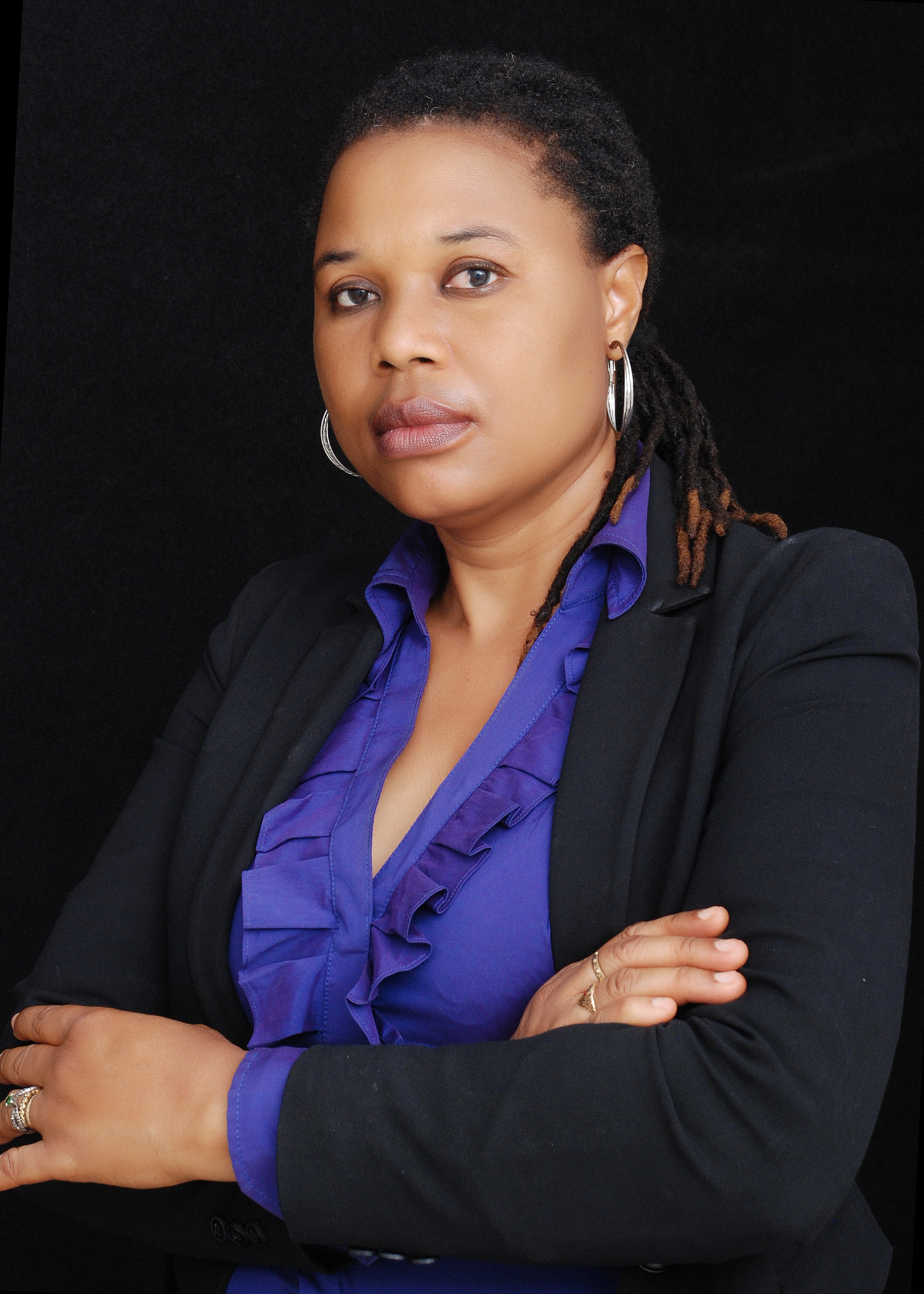 Picture of Ayo Ayoola-Amale